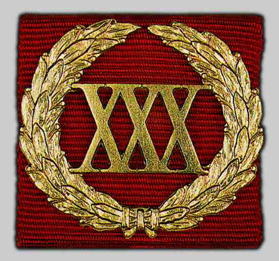 Russian Federation Badge Of Distinction For Impeccable Service - 30 Years